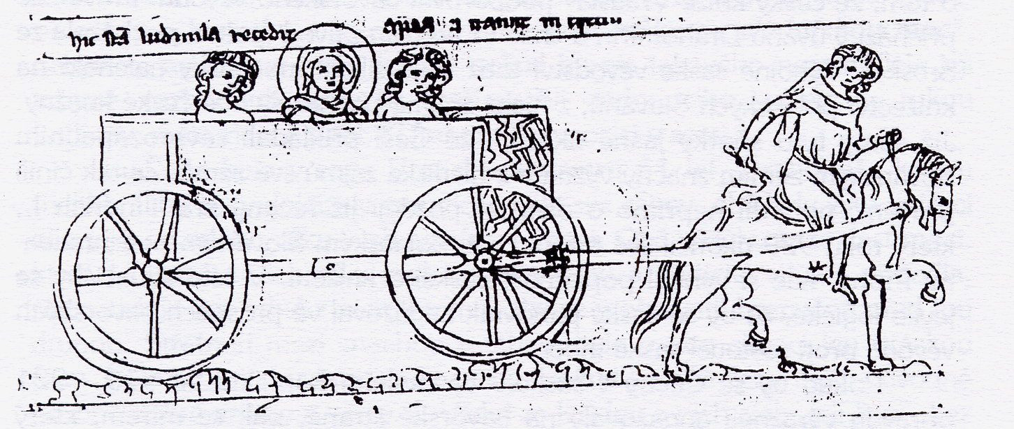 Saint Ludmila escapes from Prague. Velislav bible, 14. century.